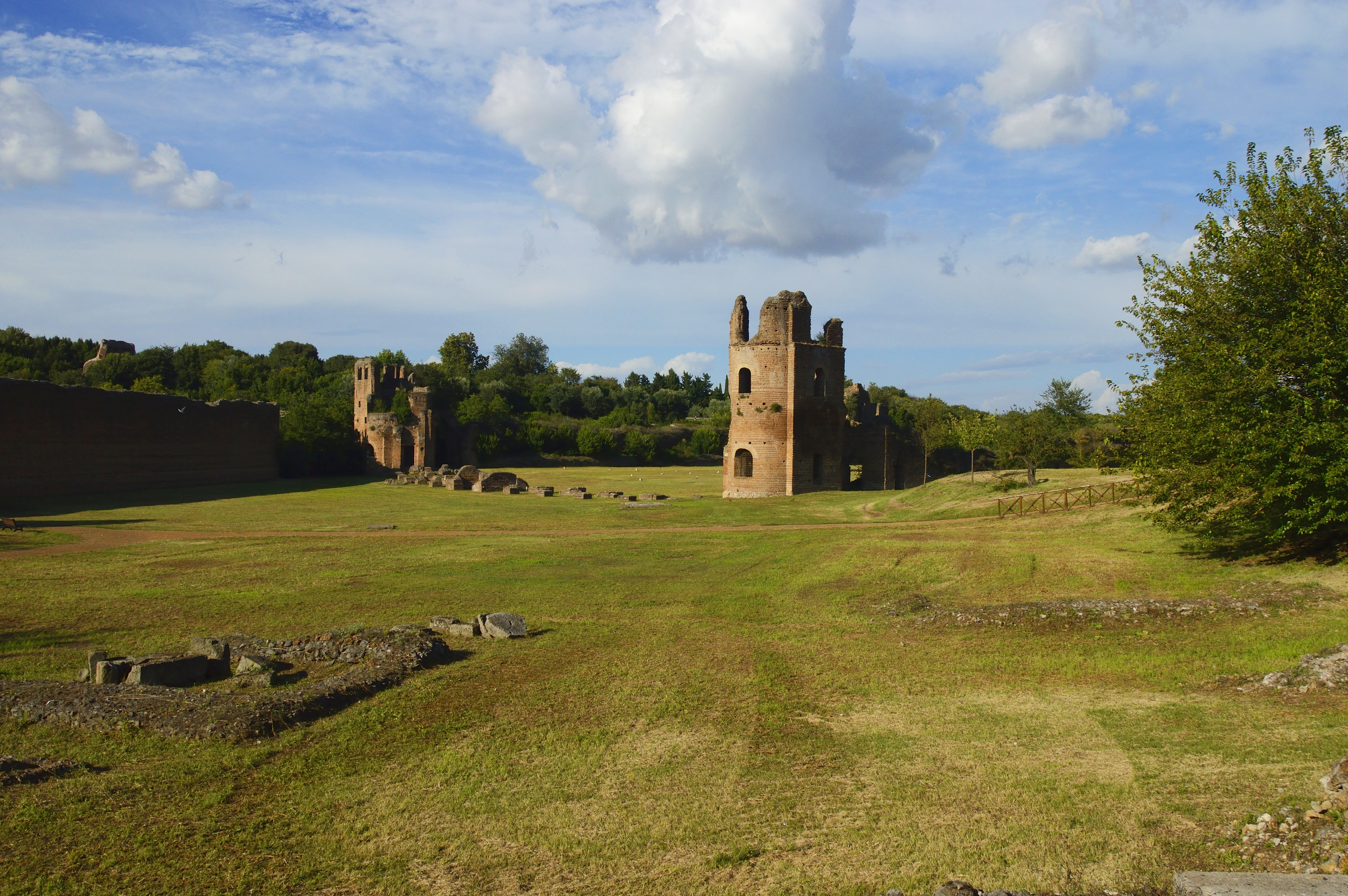 Circo di Massenzio